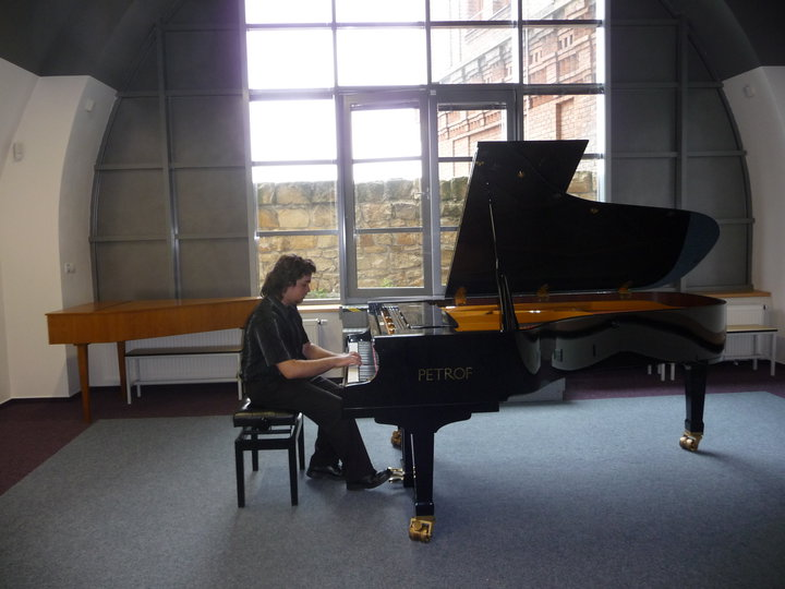 Pavel Samiec